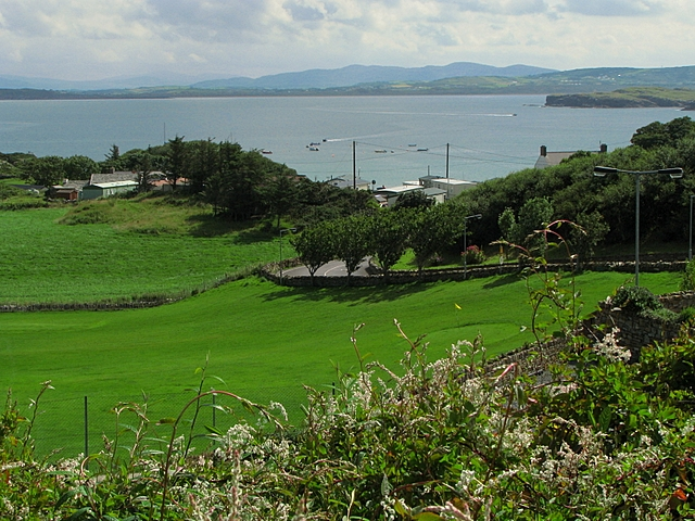 Sheephaven Bay Note – the Google maps here are useless. Please refer to OSI Discovery Series Sheet 2 from which all accurate grid references have been made. Looking down onto Sheephaven Bay near Marblehill from the grounds of the Shandon Hotel